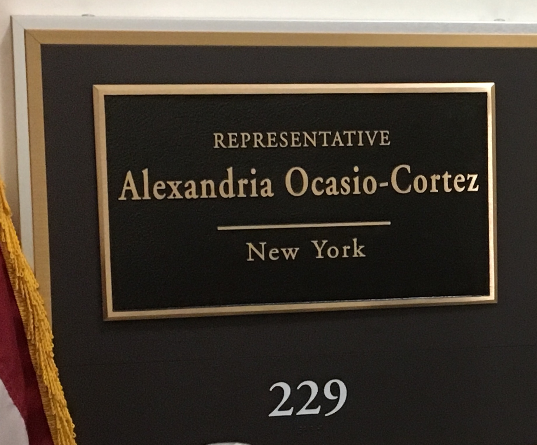 Ocasio-Cortez office nameplate during 2018 office setup